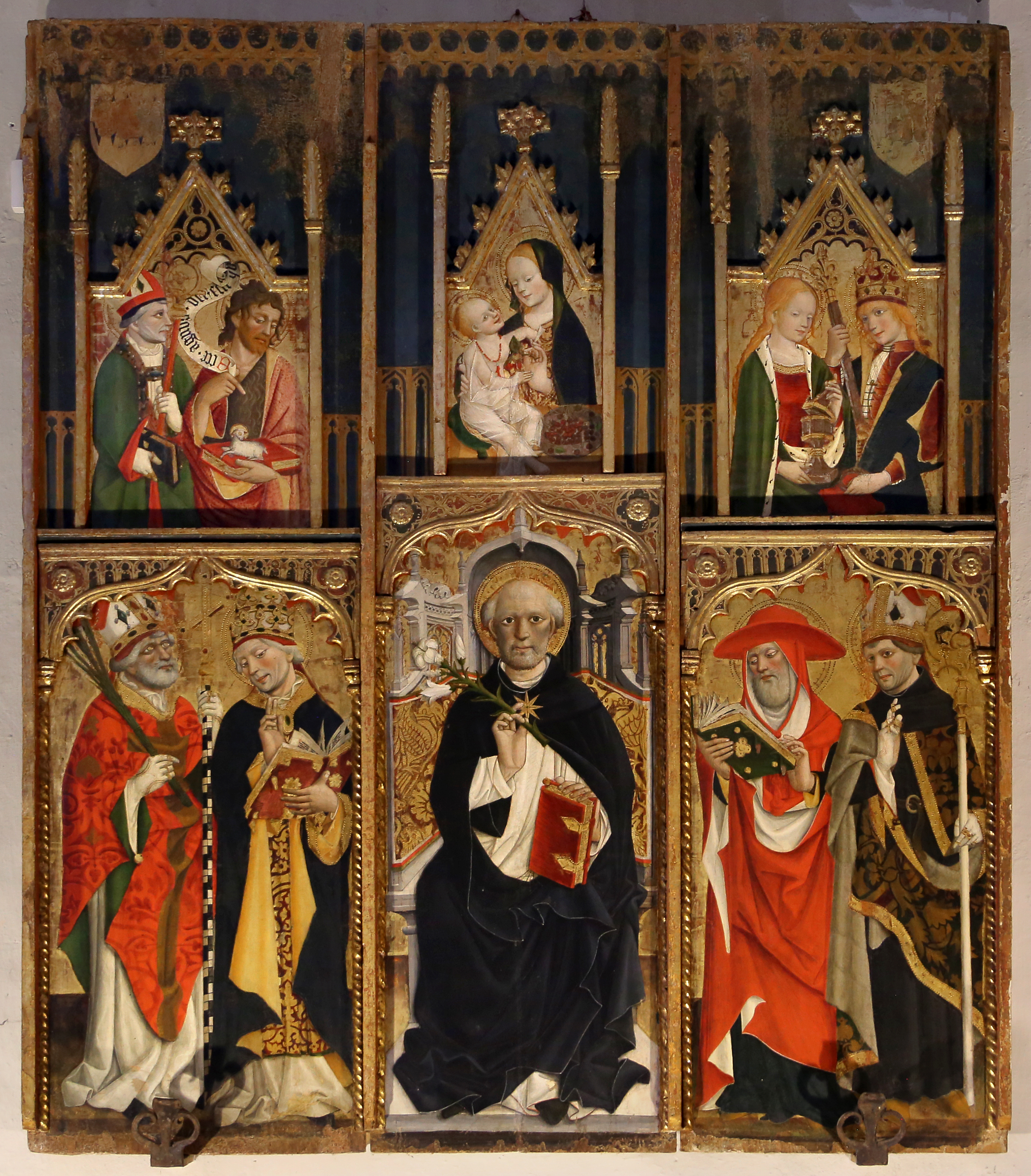 San Domenico (Taggia) - Church interior